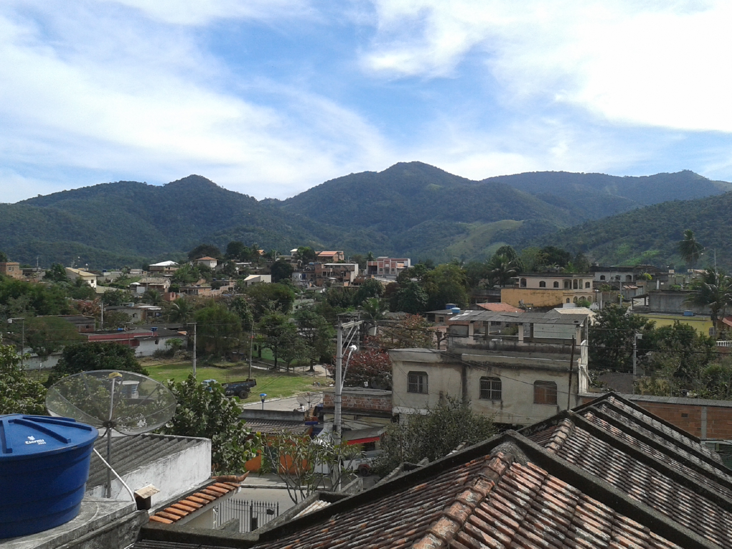 Vista da cidade de Tanguá, no estado do Rio de Janeiro, Brasil.